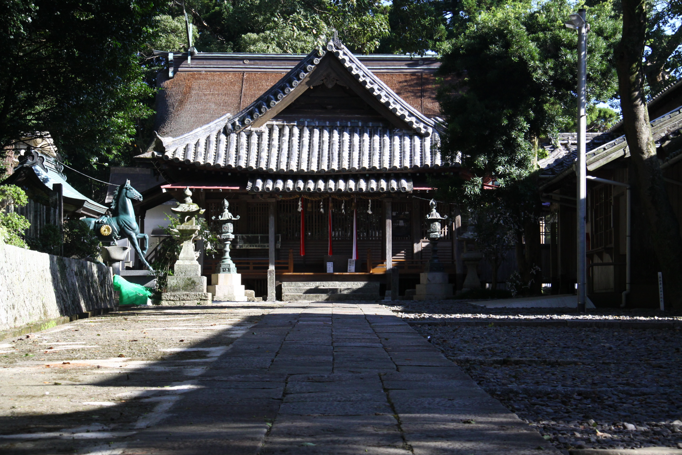 Izuhara-hachimangu jinja Haiden